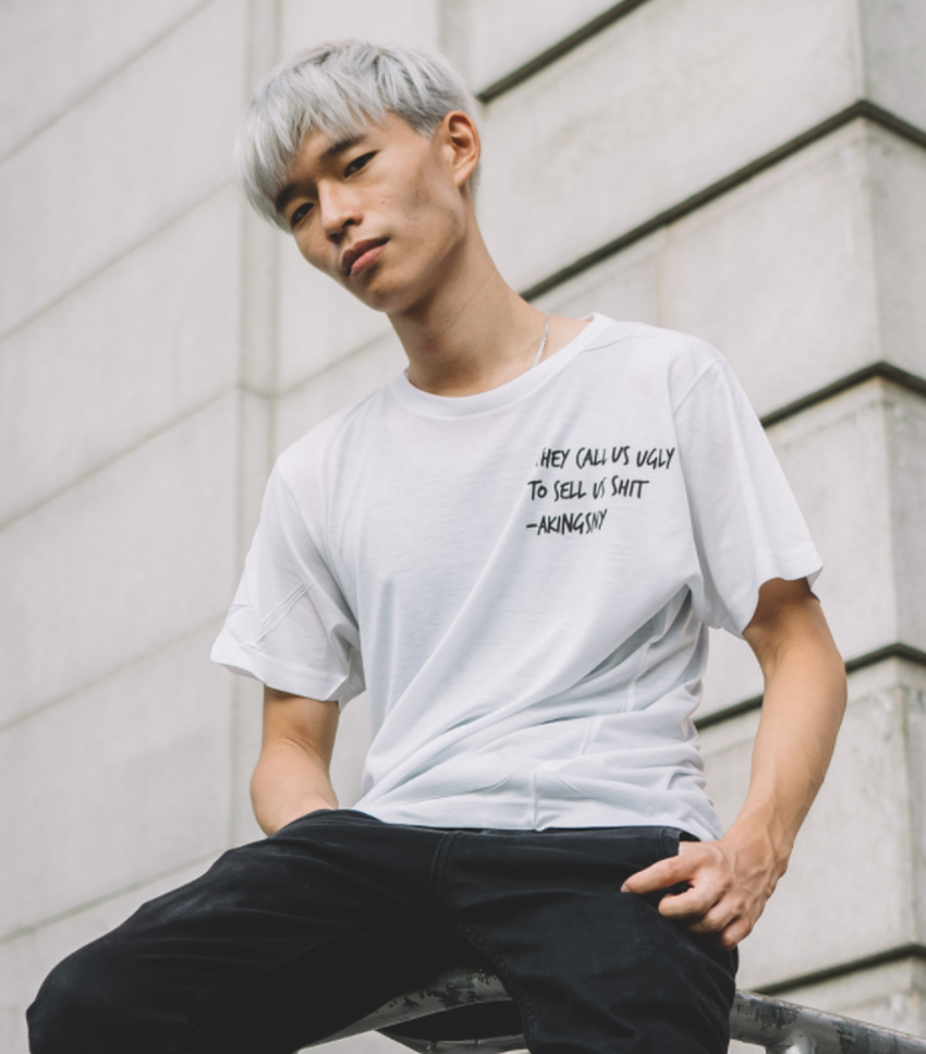 King in 2019